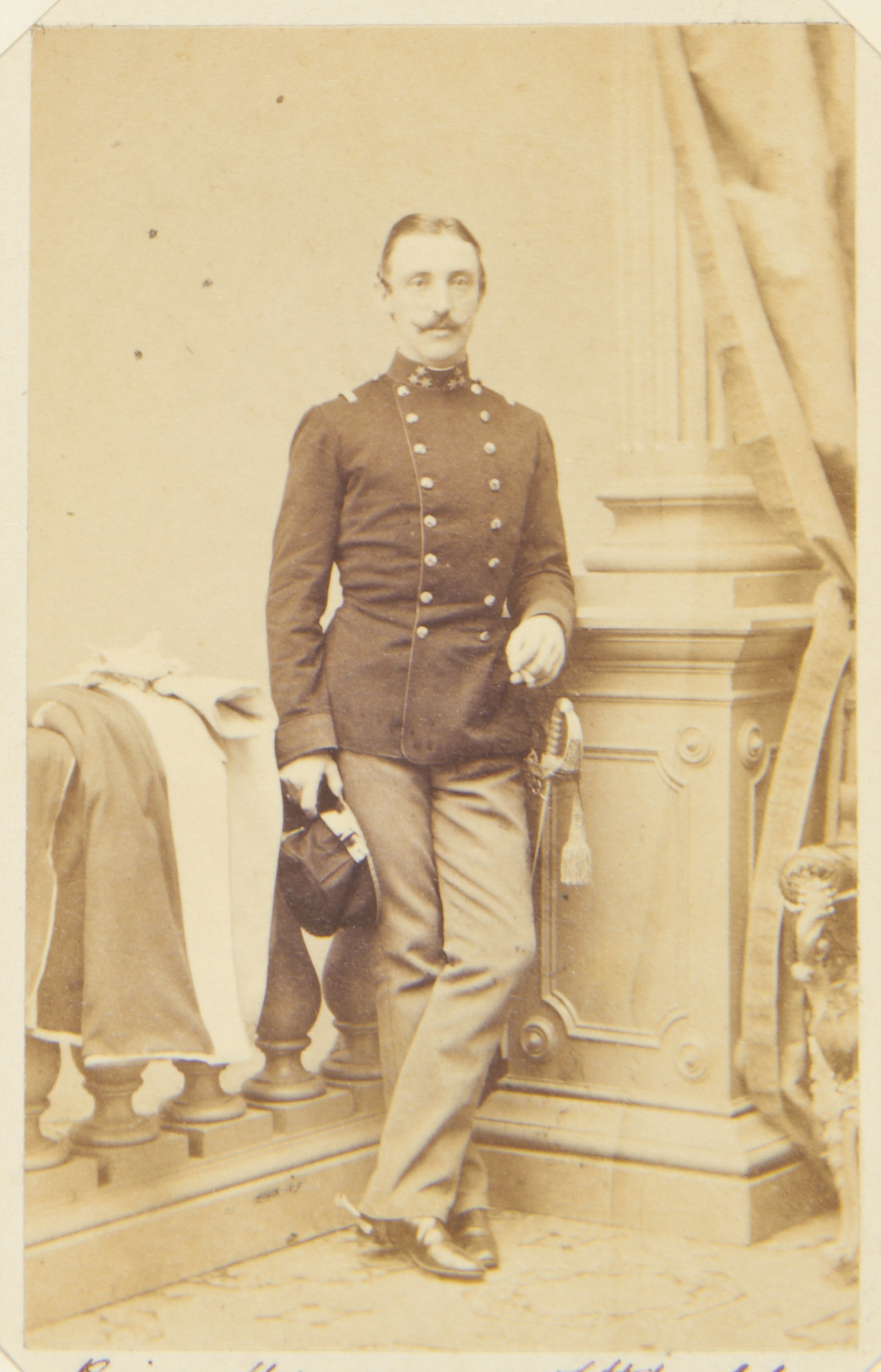 Photograph of Hermann, Prince of Hohenlohe-Langenburg. He is standing facing the camera and wears military style jacket